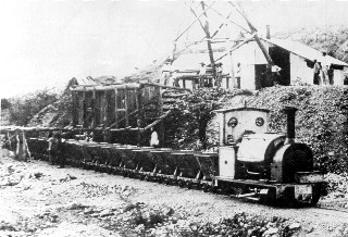 2ft gauge locomotive at work on the Cosmopolitan Tramway, Pine Creek circa 1895